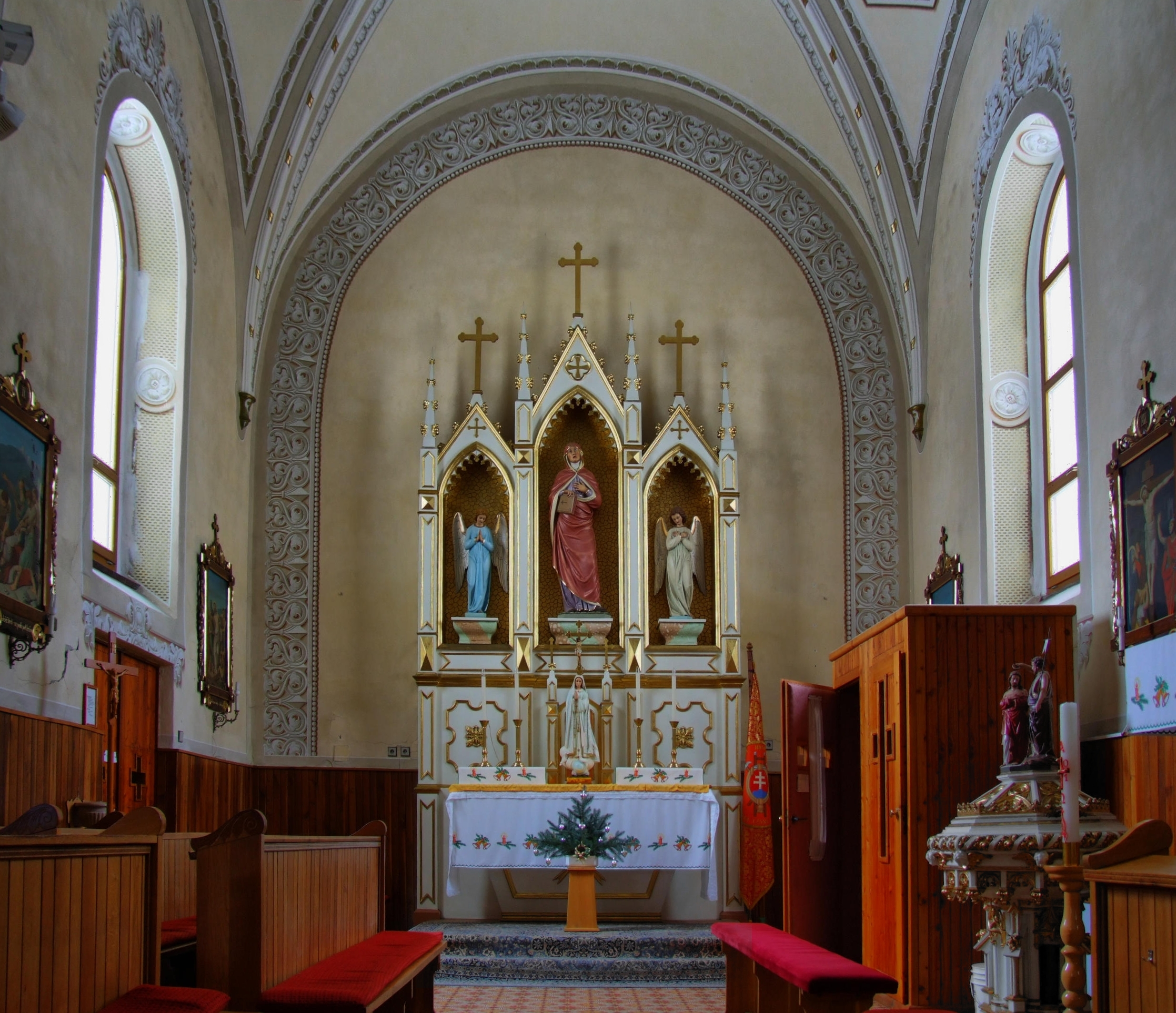 Rajecká Lesná, Slovakia. The Parish Church of the Nativity of the Blessed Virgin Mary (basilica minor) - left altar